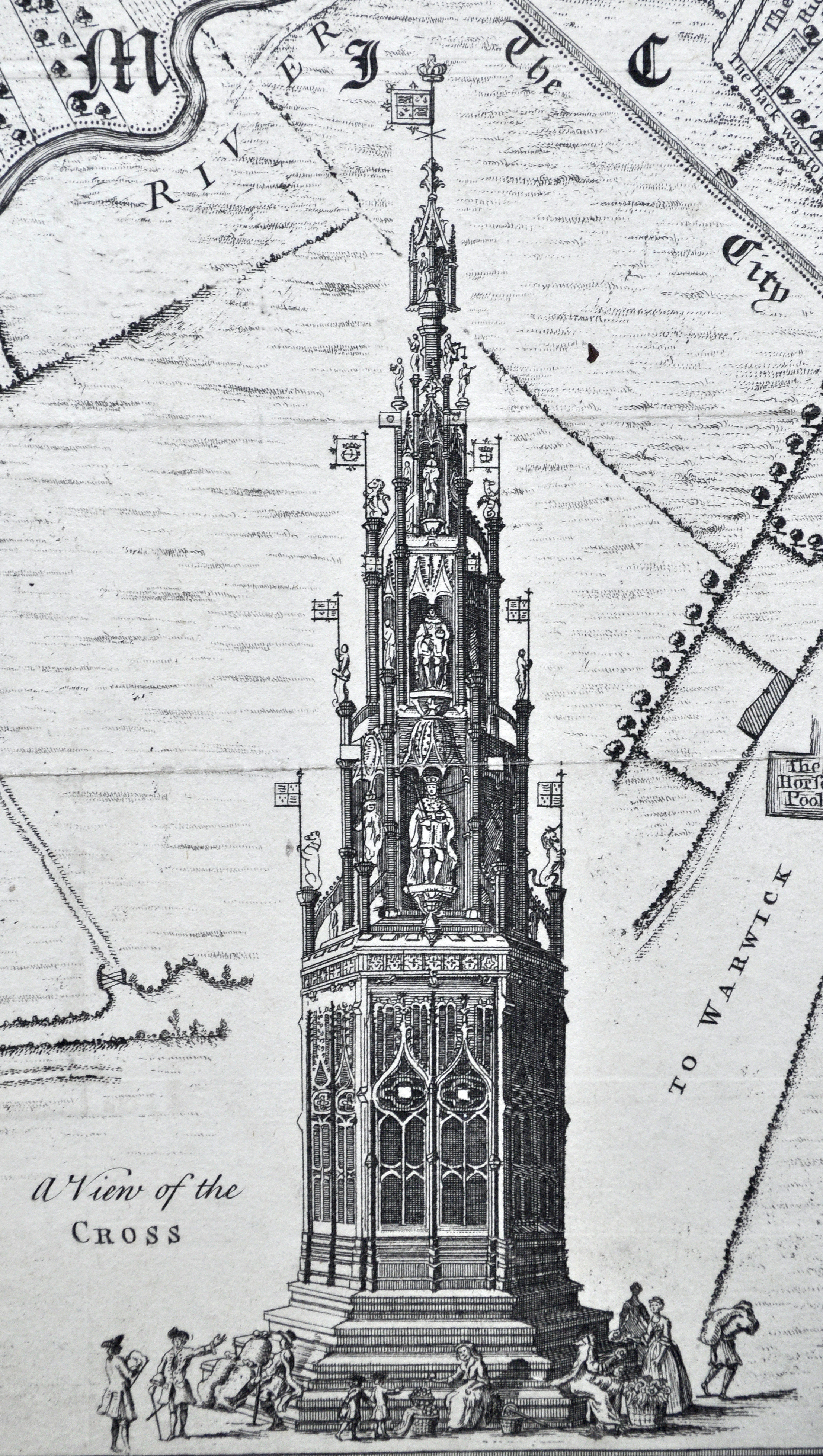 Detail of Samuel Bradford's 1748/49 map of Coventry showing the Coventry Cross.